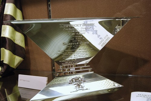 3 sided Triple Crown Trophy, created 1950. Replica awarded to any United States Triple Crown winner Licensing This work is in the public domain because it was published in the United States between 1923 and 1977 and without a copyright notice. Unless its author has been dead for several years, it is copyrighted in jurisdictions that do not apply the rule of the shorter term for US works, such as Canada (50 p.m.a.), Mainland China (50 p.m.a., not Hong Kong or Macao), Germany (70 p.m.a.), Mexico (100 p.m.a.), Switzerland (70 p.m.a.), and other countries with individual treaties. See this page for further explanation.